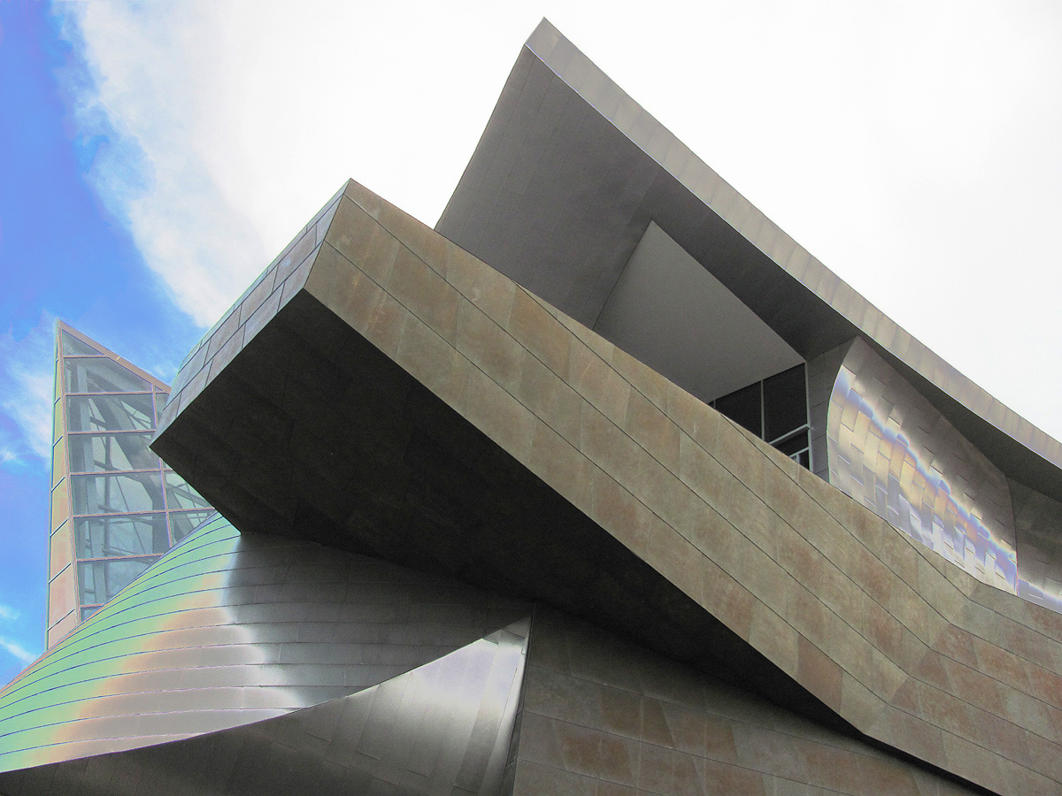 The Taubman Museum of Art is an impressive new building in downtown Roanoke, Virgina, designed by L.A. architect Randall Stout (who was a senior associate of Frank Gehry's for many years, as can be seen from the style of this building). I had no idea it was there, I haven't driven through Roanoke in at least a decade. I was very pleasantly surprised to spot this fascinating architectural creation right by the side of the main road through town, so I had to stop and take some pictures in a hurry. This is a partial side view, shot with the camera tilted to bring together in one visual whole many of the key style elements of the building's design.